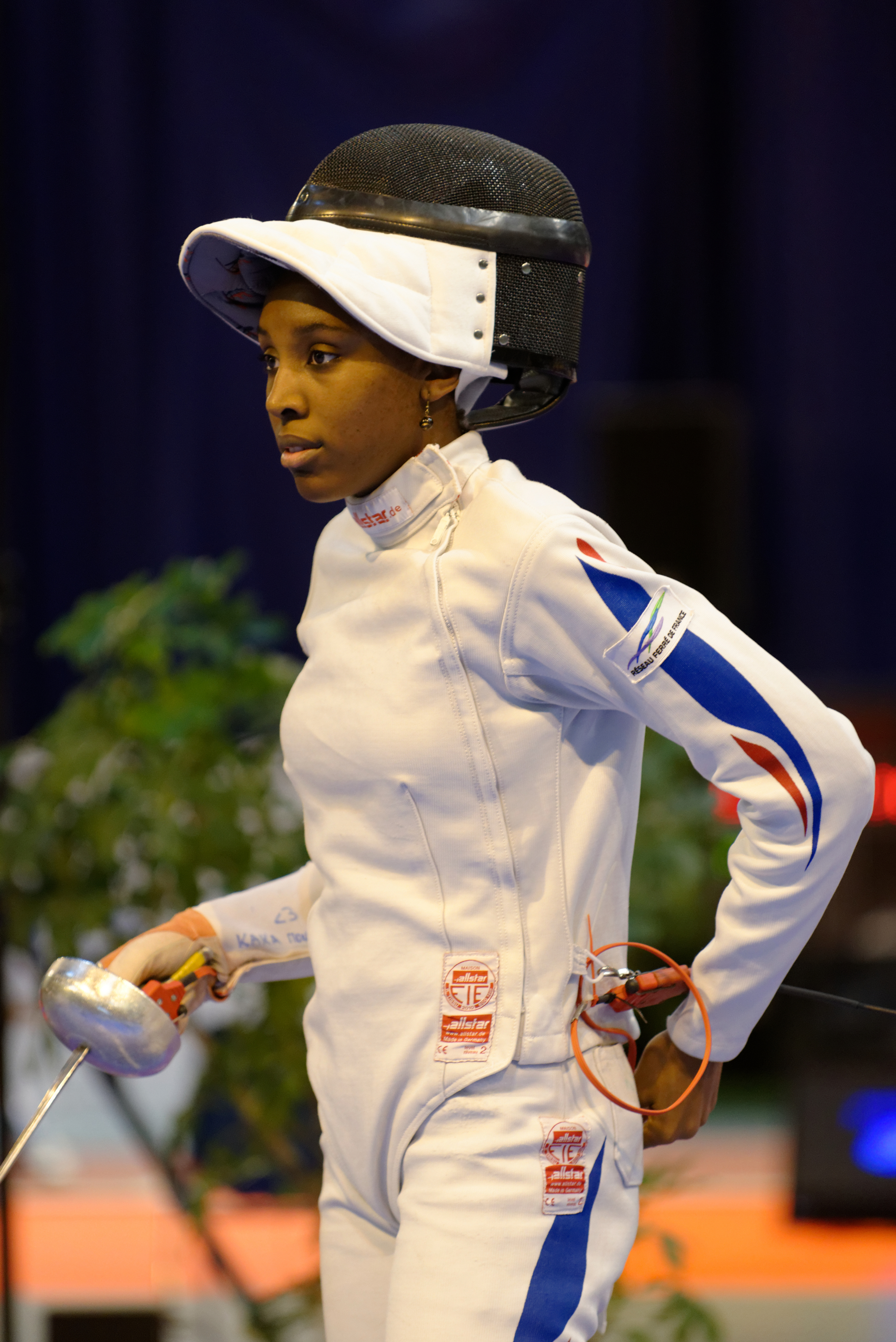 Lauren Rembi of France during her bout against Hungary's Emese Szász. 1/16-final of the Challenge international de Saint-Maur 2013, women's épée World Cup tournament.